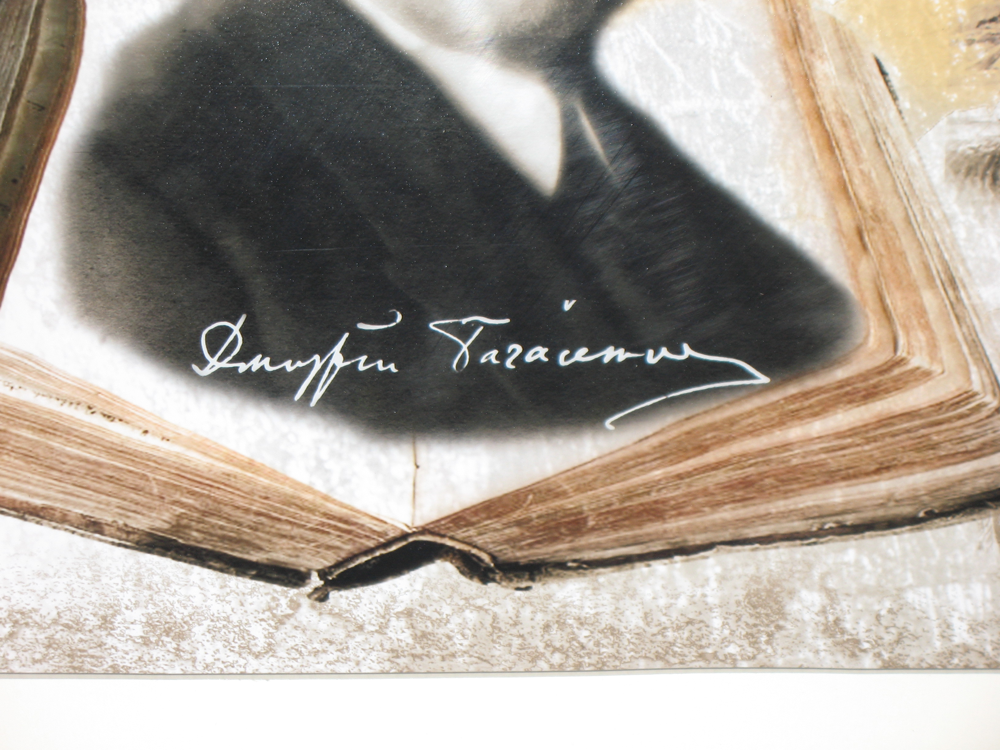 Dmitry Bagaley signature.